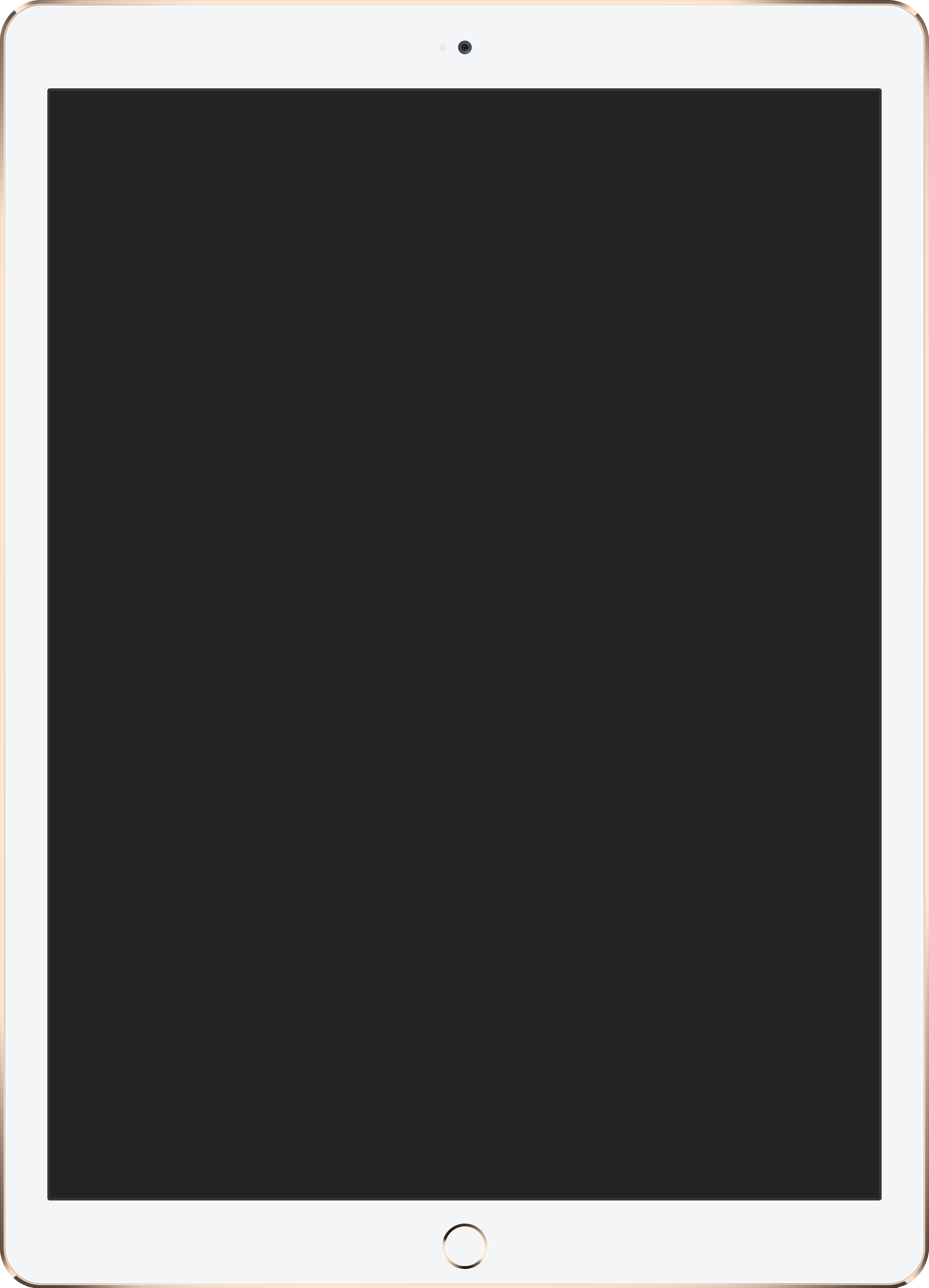 iPad Pro 1 Mockup